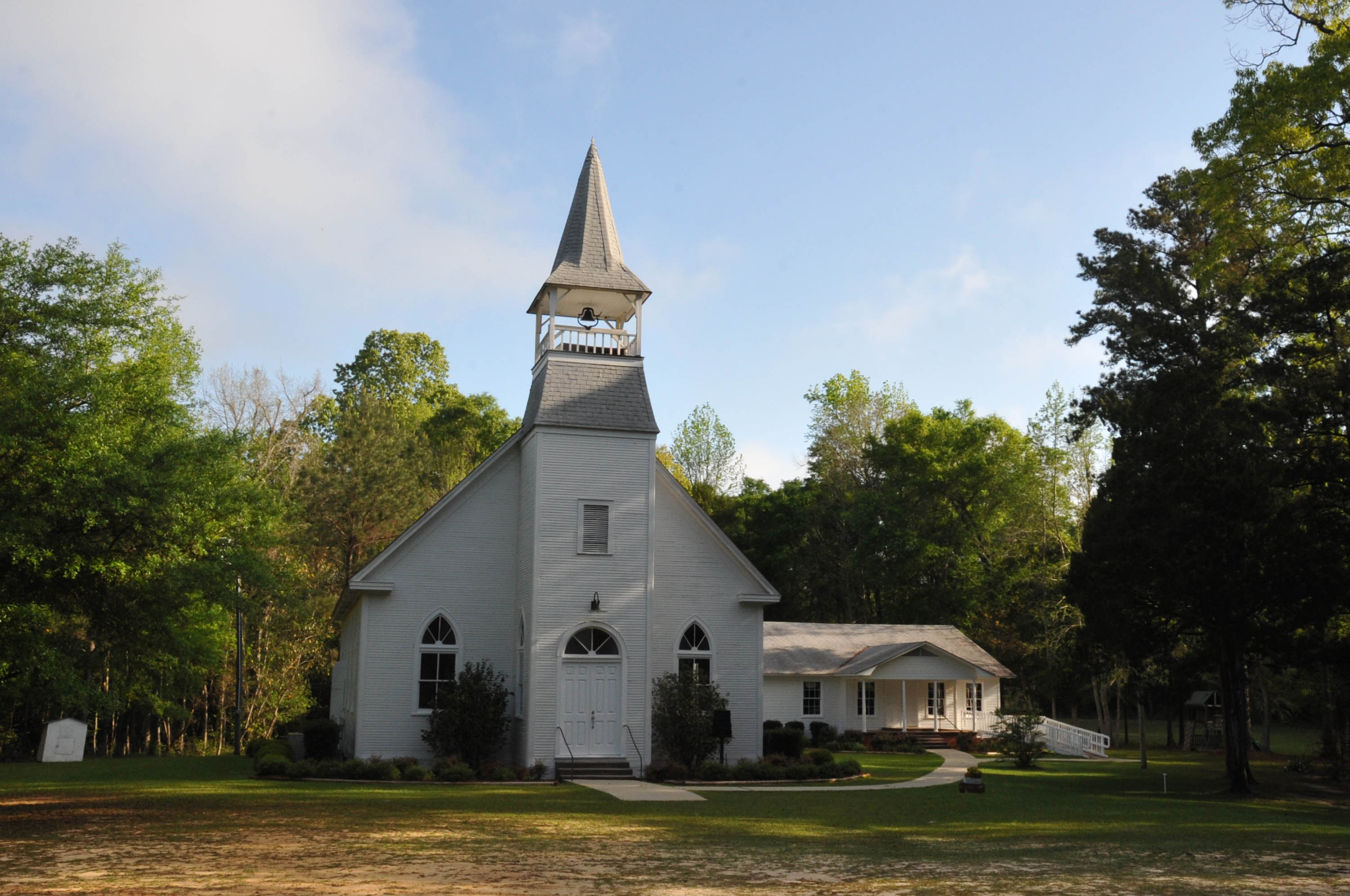 CONSTRUCTED 1906-1908